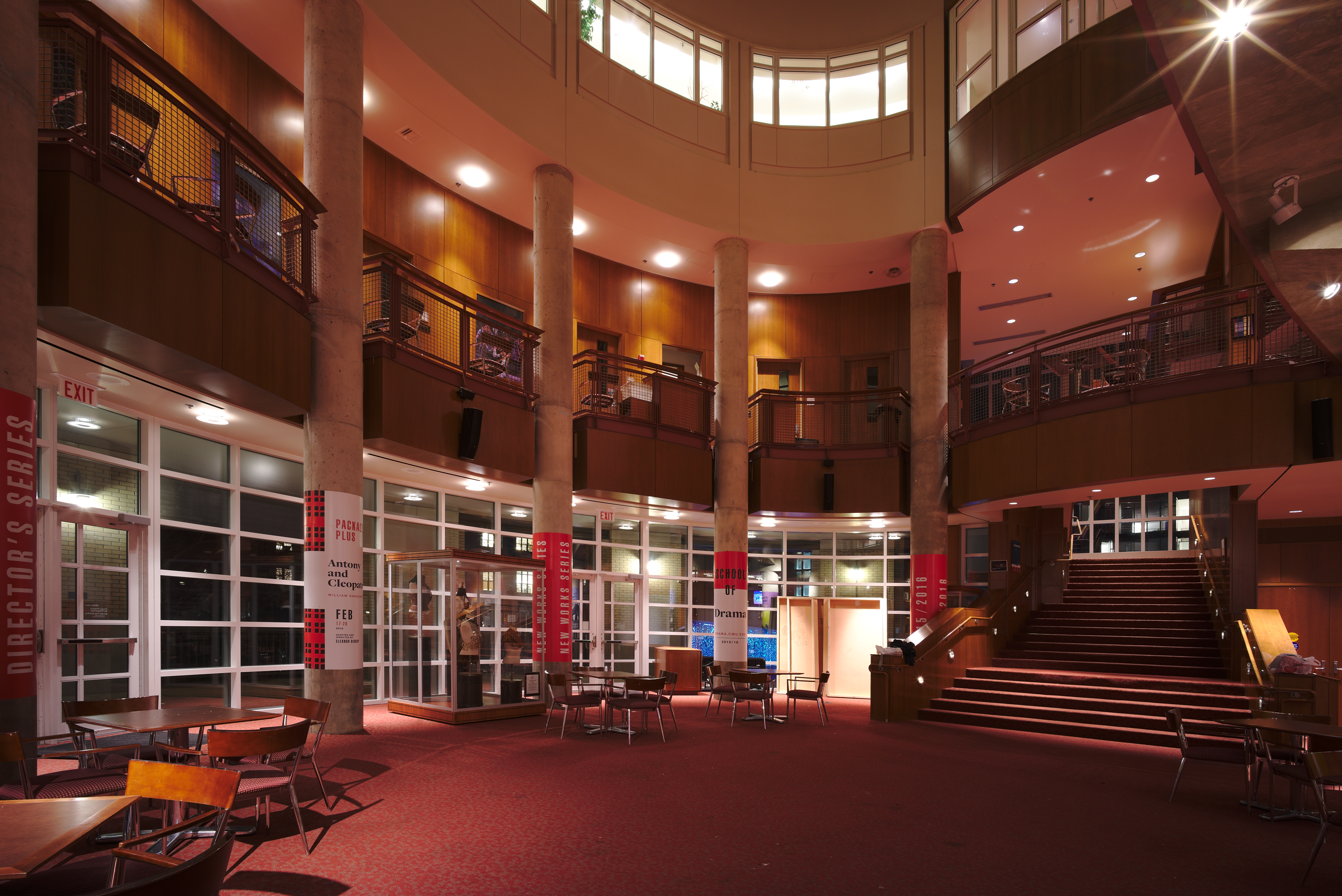 The Carnegie Mellon School of Drama is the oldest degree-granting drama program in the United States, founded in 1914 as a division of the College of Fine Arts at Carnegie Mellon University.